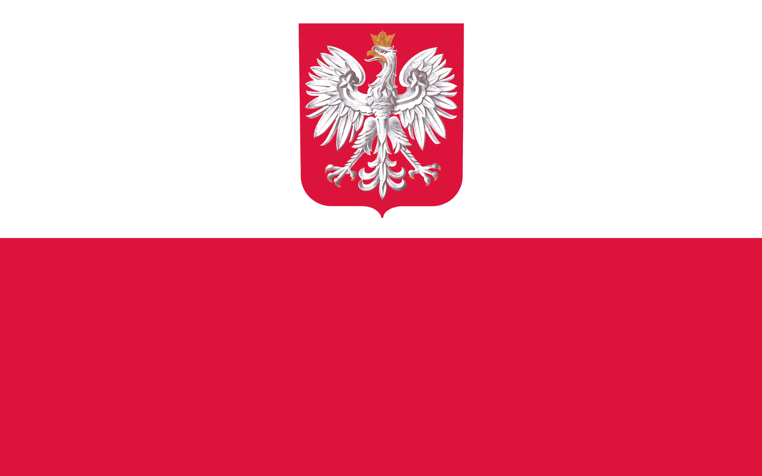 State flag of Poland with Coat of Arms, symbolic version. Based on Image:Flag of Poland.svg and Image:Herb Polski.svg. Note: the CoA used here is the official, accurate version. Unfortunately it's only available in bitmap format, hence the alternative image in SVG format below features an unofficial CoA.